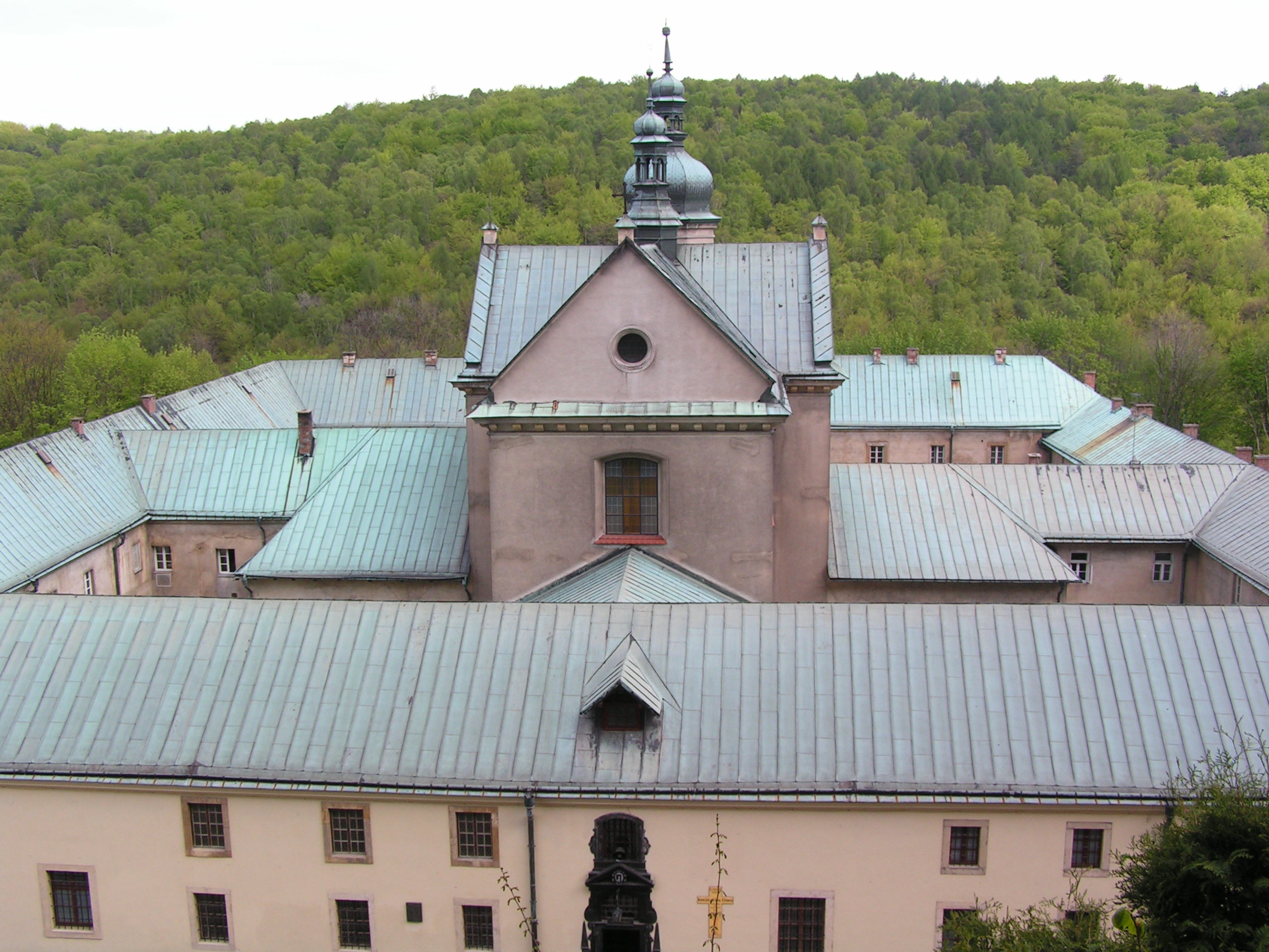 Monastery in Czerna, Poland